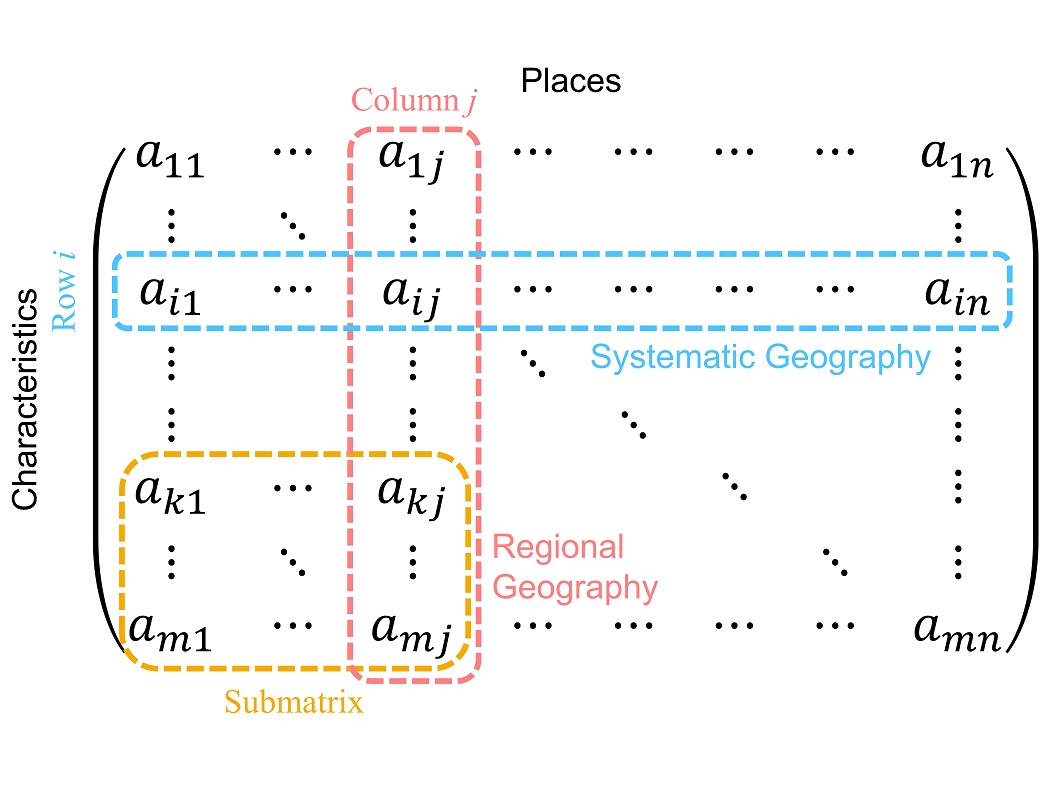 In this geographical matrix, the rows mean characteristics, the columns mean place, and the geographical phenomena are shown at the intersection of each row and column (matrix entry). Approaches to like systematic geography focus to one row (light blue) and Approaches to like regional geography focus to one column (pink). Approaches focus on multiple rows or columns, or a submatrix (orange) are also in existence.